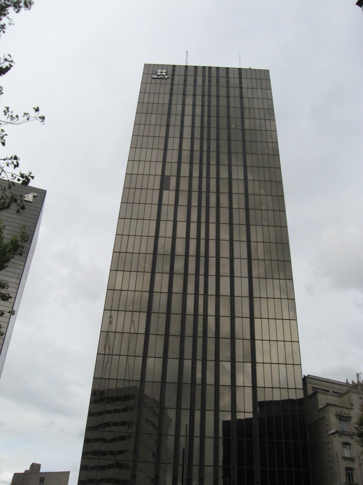 Secretaria de Administracion Tributaria the internal revenue service of Mexico building located on Reforma Ave in Mexico City